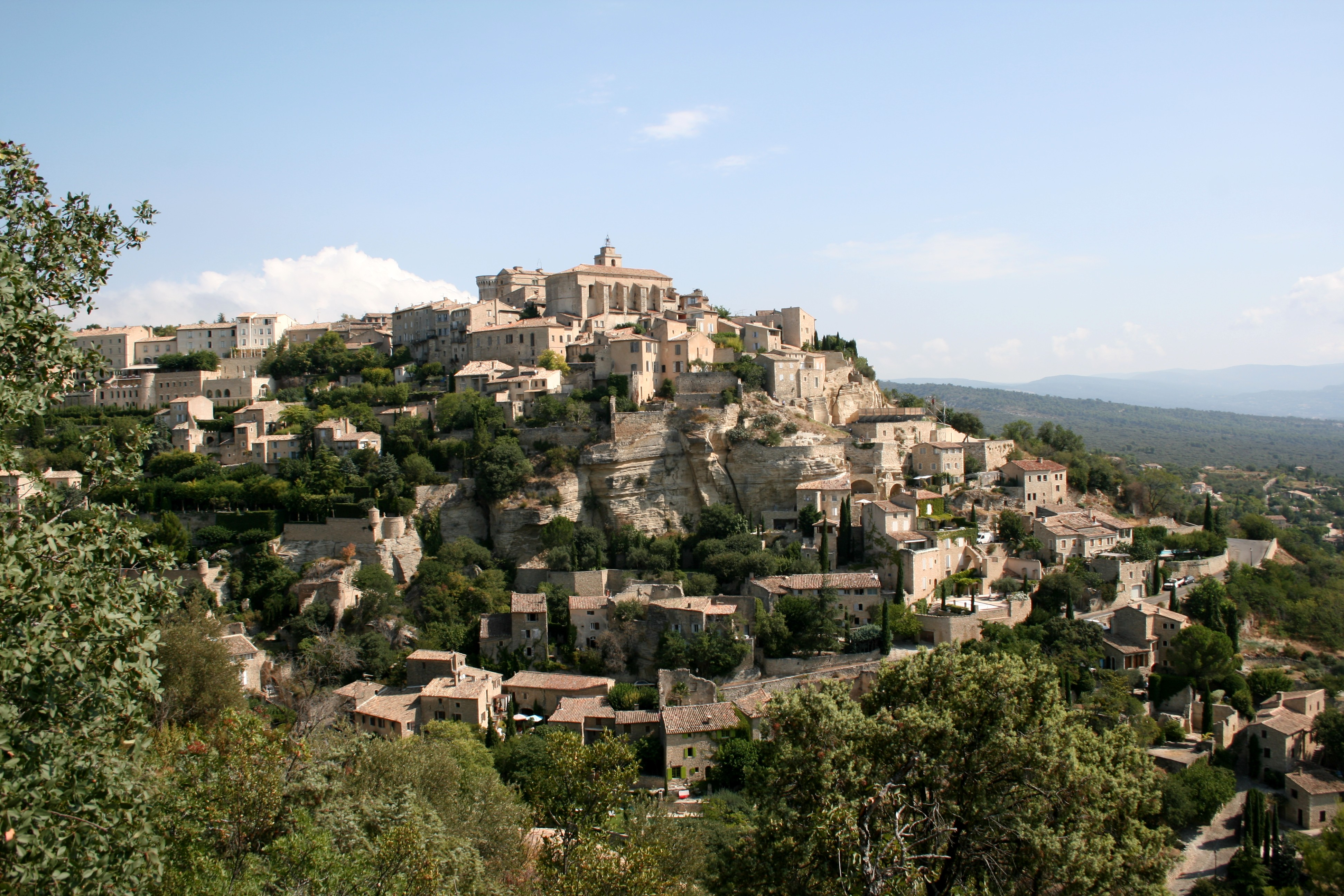 Gordes, a village in southern France